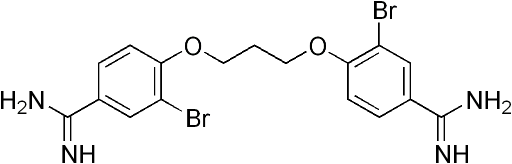 chemical stucture of dibrompropamidine